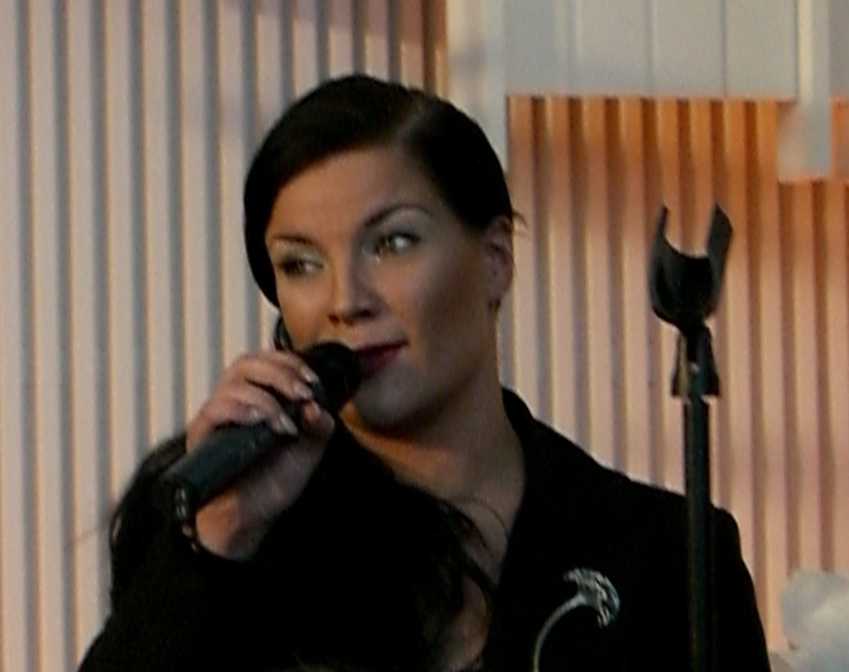 This picture shows the Finnish singer Hanna Pakarinen performing two days before the Eurovision 2007 finals at the German embassy in Helsinki. It was taken on the 10th of May 2007 in the German embassy in Helsinki by Christian Scheuermann and uploaded by Anton Pussep on the following day.